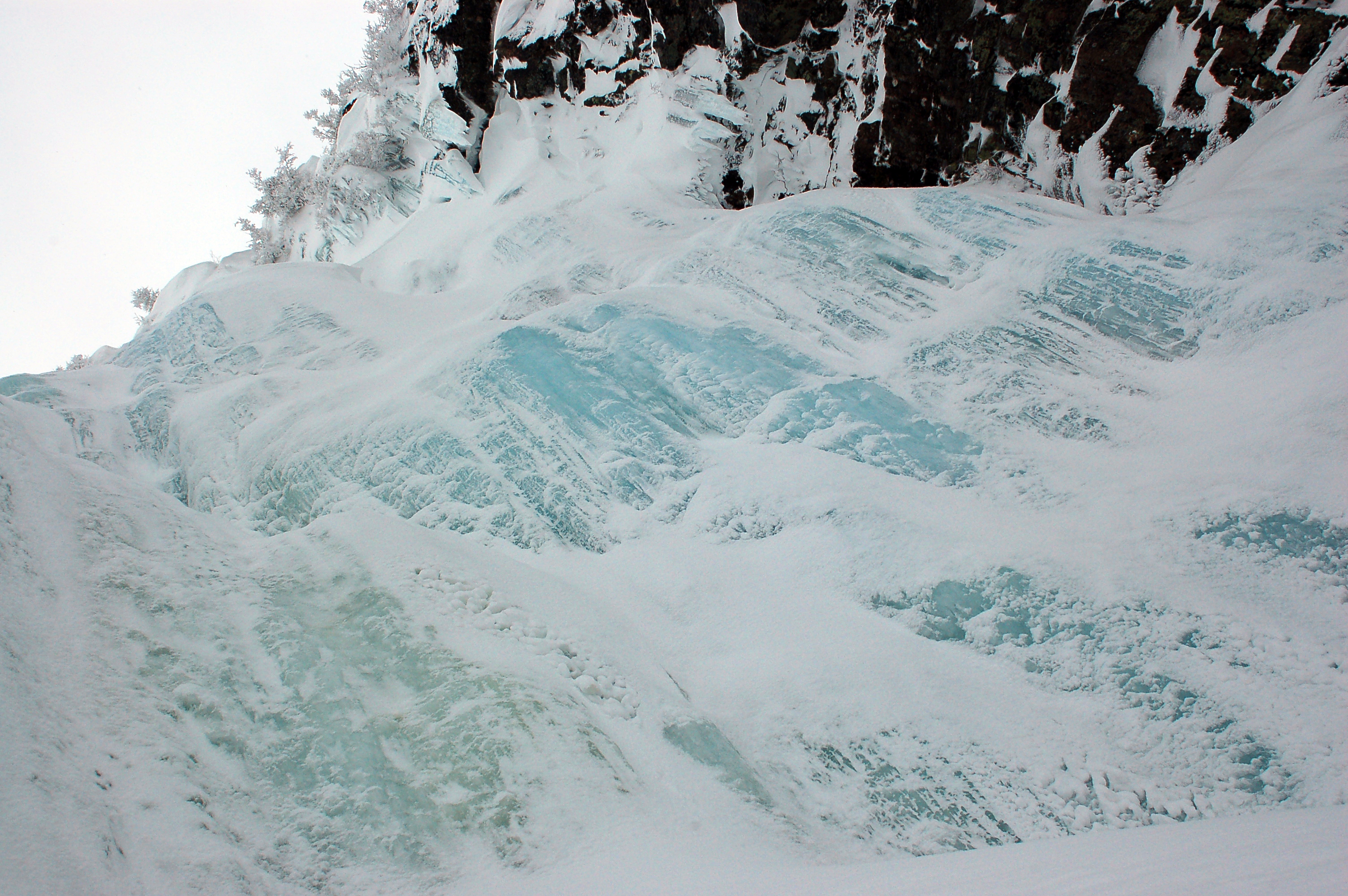 Njupeskar (Sweden's highest water fall) at Fulufjallet National Park in Western Sweden; frozen in winter